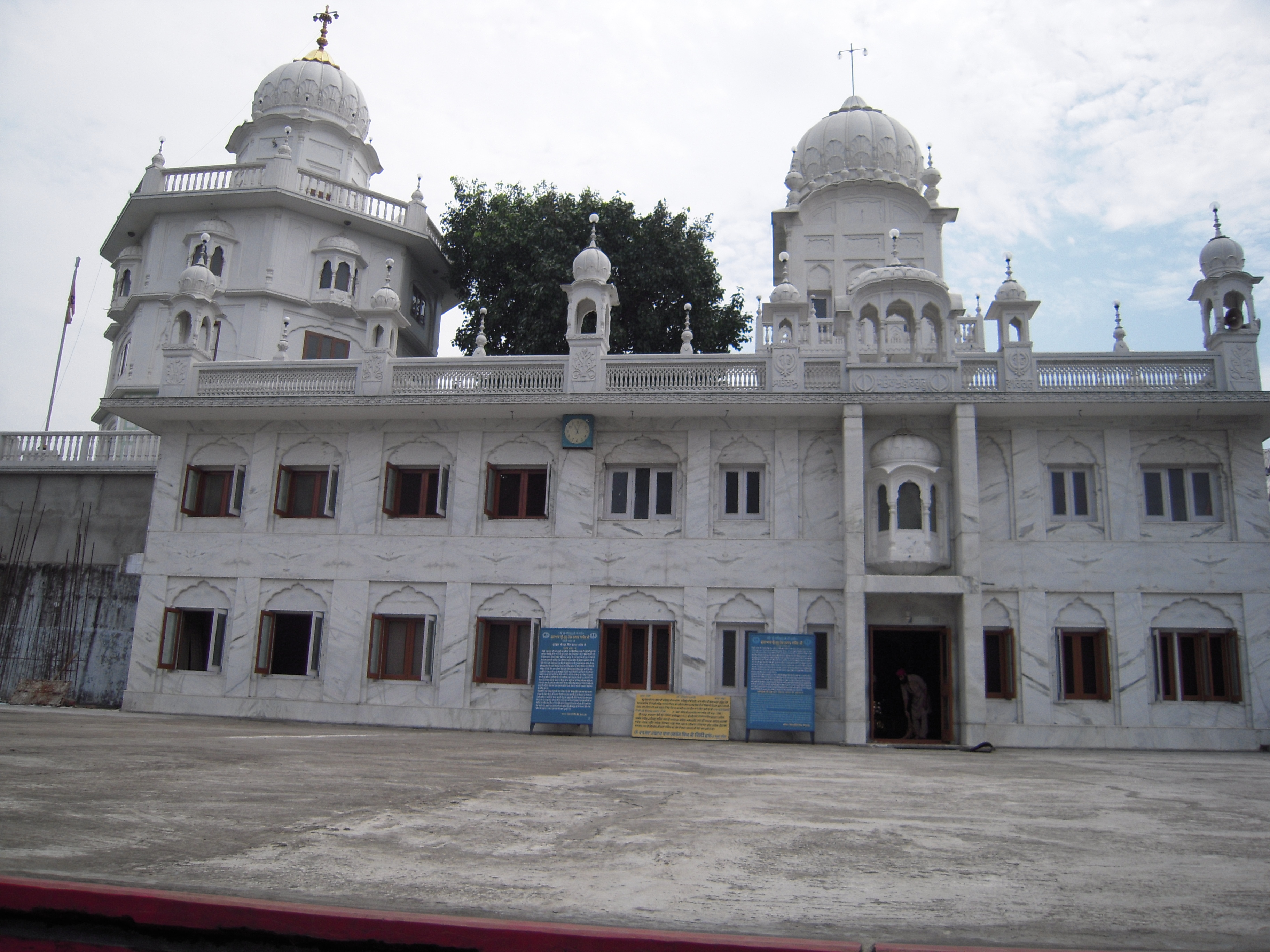 Main temple, Gurdwara Sri Guru Tegh Bahadur Sahib